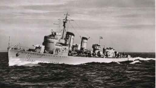 Picture of the Swedish destroyer HMS Norrköping (J10).